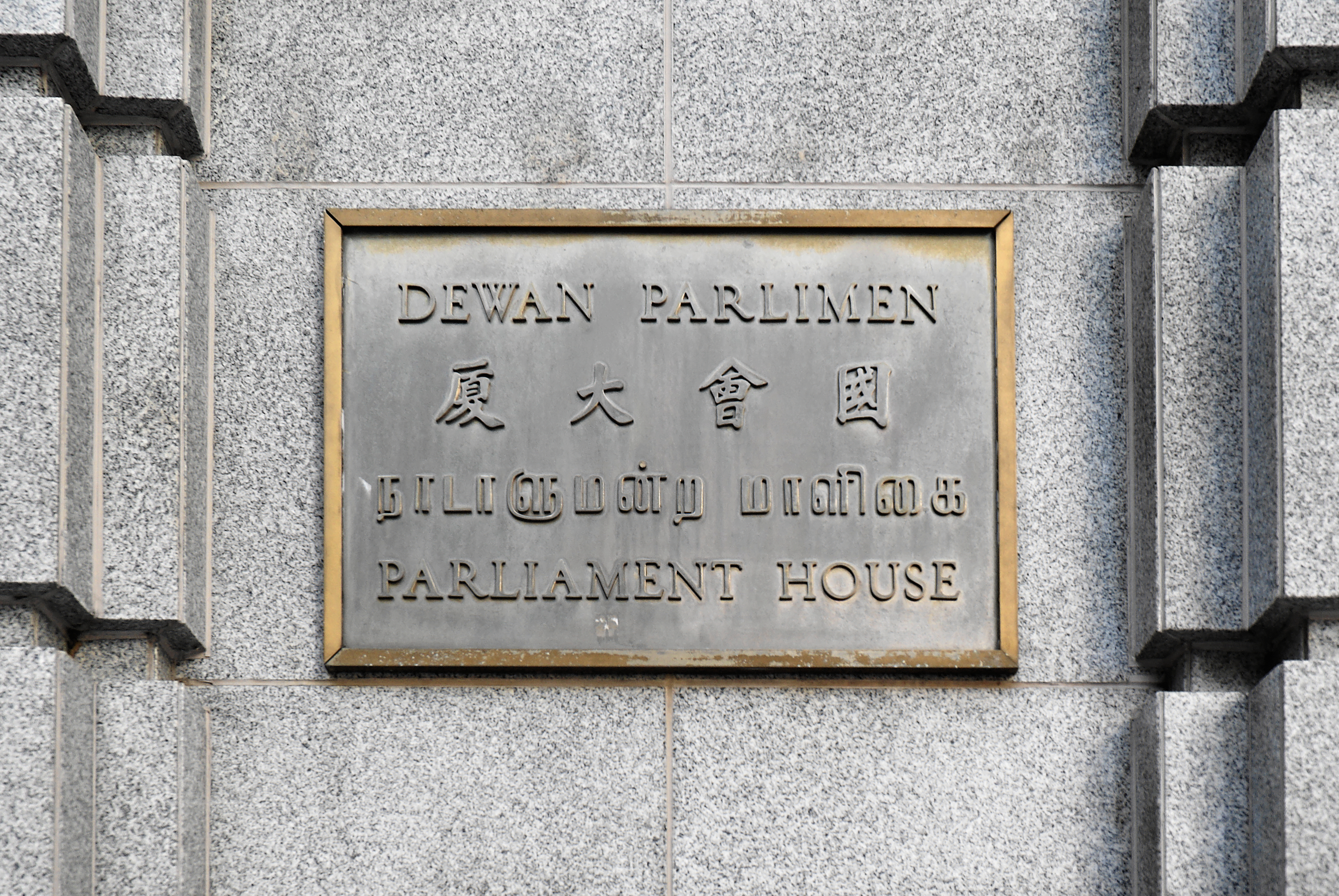 A sign at Parliament House, Singapore, in the nation's four official languages.